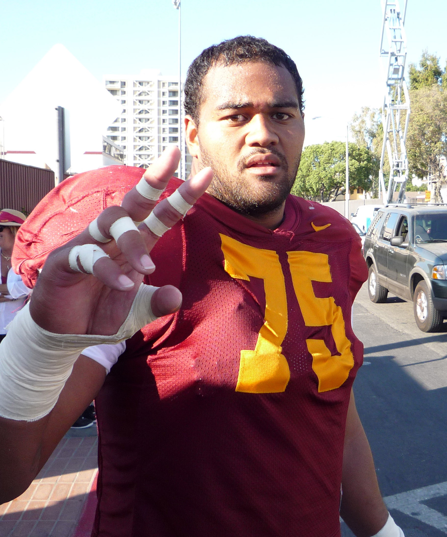 Defensive Tackle Fili Moala, after a fall practice preceding the 2008 USC Trojans football season. He is making the traditional USC Trojan "V" for victory hand sign.